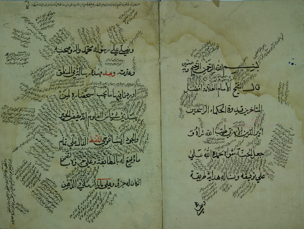 Isagoge manuscript - Athīr al-Dīn al-Abharī